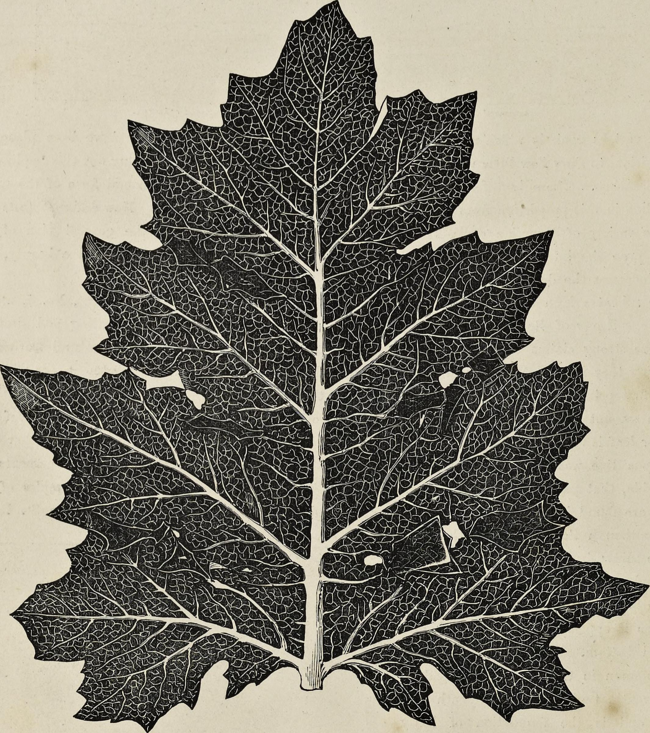 The acanthus, full size, from a photograph Title: The grammar of ornament Year: 1868 (1860s) Authors: Jones, Owen, 1809-1874 Waring, J. B. (John Burley), 1823-1875 Westwood, J. O. (John Obadiah), 1805-1893 Wyatt, M. Digby (Matthew Digby), Sir, 1820-1877 Bernard Quaritch (Firm), publisher Subjects: Decoration and ornament Decoration and ornament Decorative arts Publisher: London : Bernard Quaritch, 15 Piccadilly Text Appearing Before Image: From the Abbey of St. Denis, Paris. iI m ROMAN ORNAMENT. We have not thought it necessary to give in this series any of the painted decorations of theRomans, of which remains exist in the Eoman baths. We had no reliable materials at command;and, further, they are so similar to those at Pompeii, and show rather what to avoid than what tofollow, that we have thought it sufficient to introduce the two subjects from the Forum of Trajan,in which figures terminating in scrolls may be said to be the foundation of that prominent featurein their painted decorations, I HH ■ Text Appearing After Image: The Acanthus, full size, from a Photograph. 46